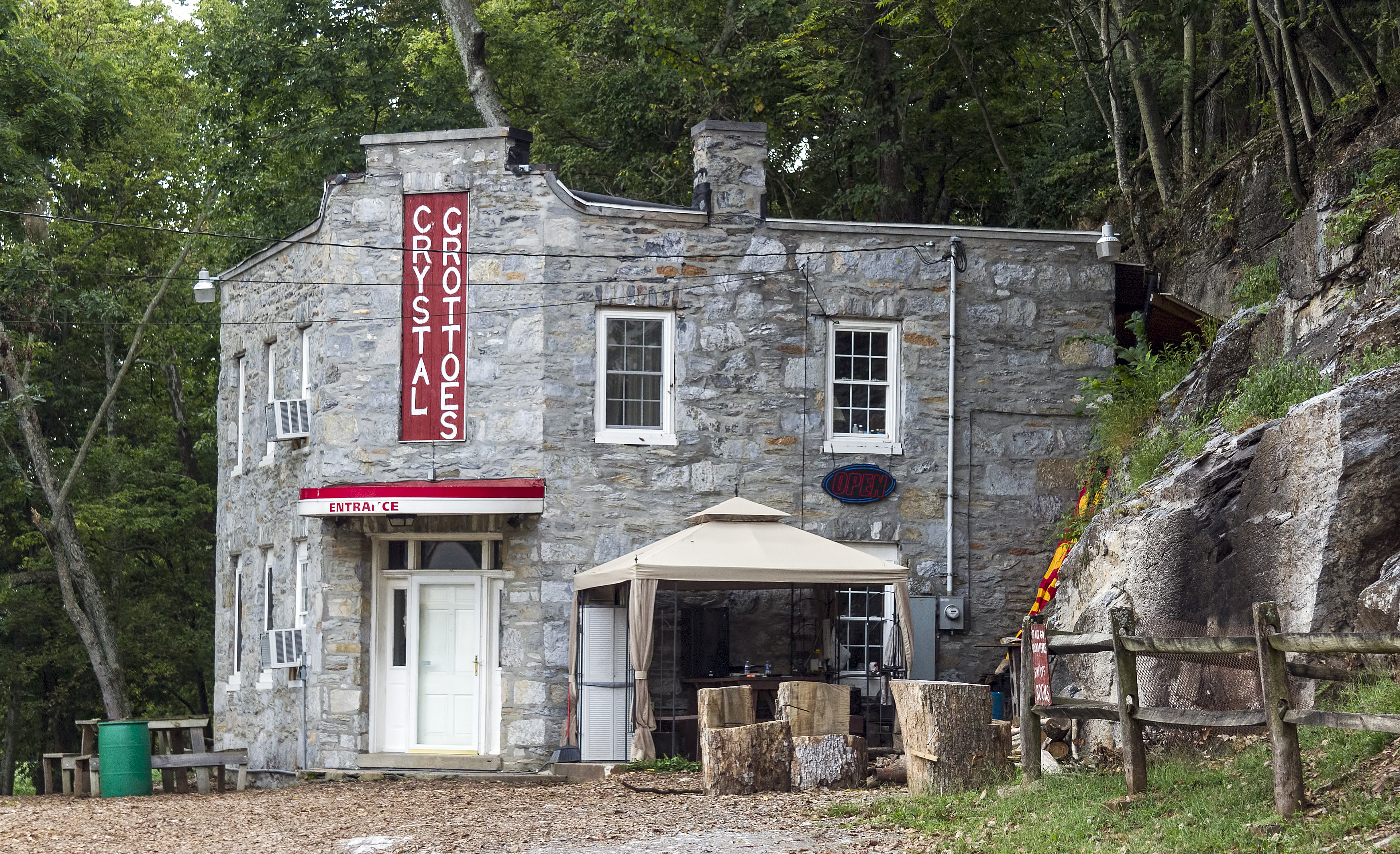 The main building at the entrance to Crystal Grottoes, Keedysville, Maryland, USA